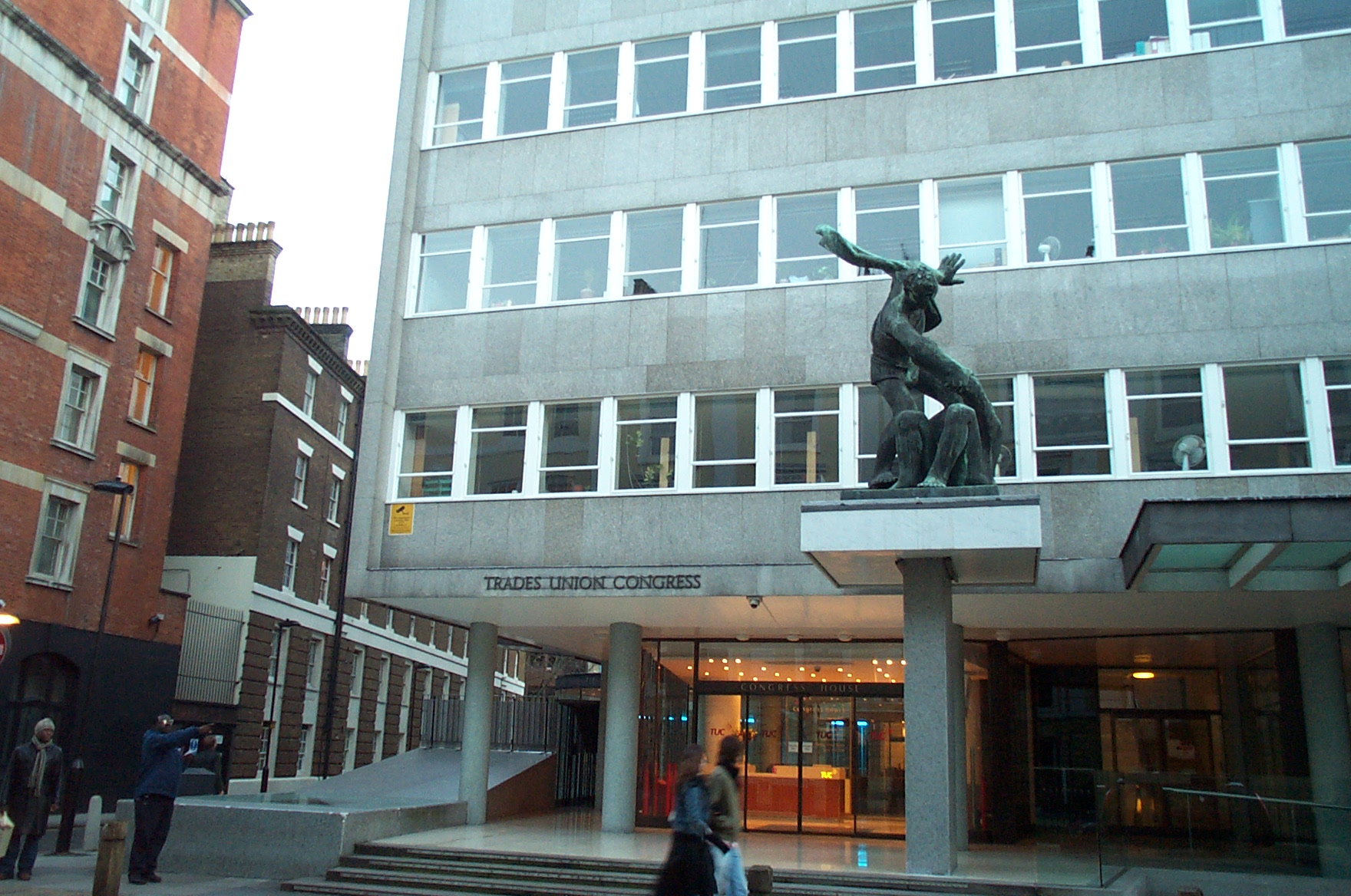 Trades Union Congress headquarters at Congress House, Camden, London, 2005-01-08. Copyright © 2005 Kaihsu Tai.